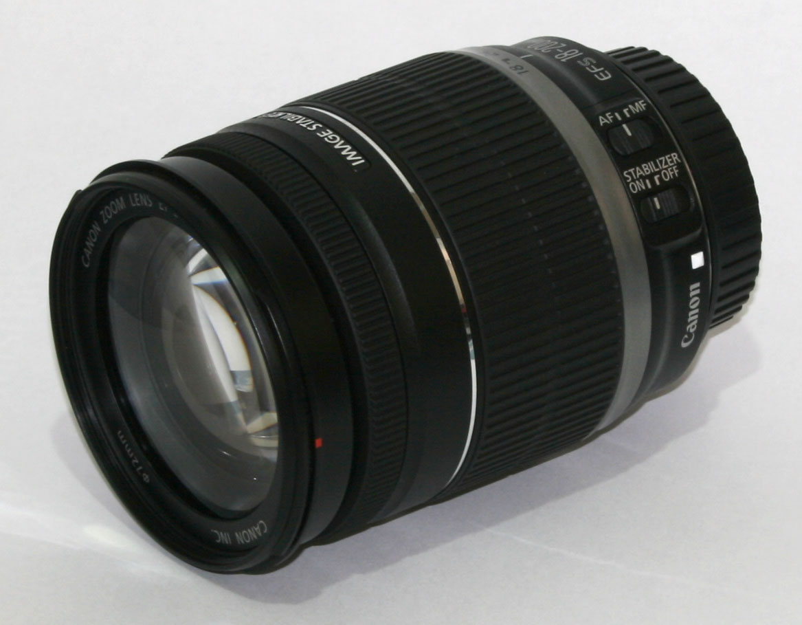 Canon EF-S 18-200mm f/3.5-5.6 lens.